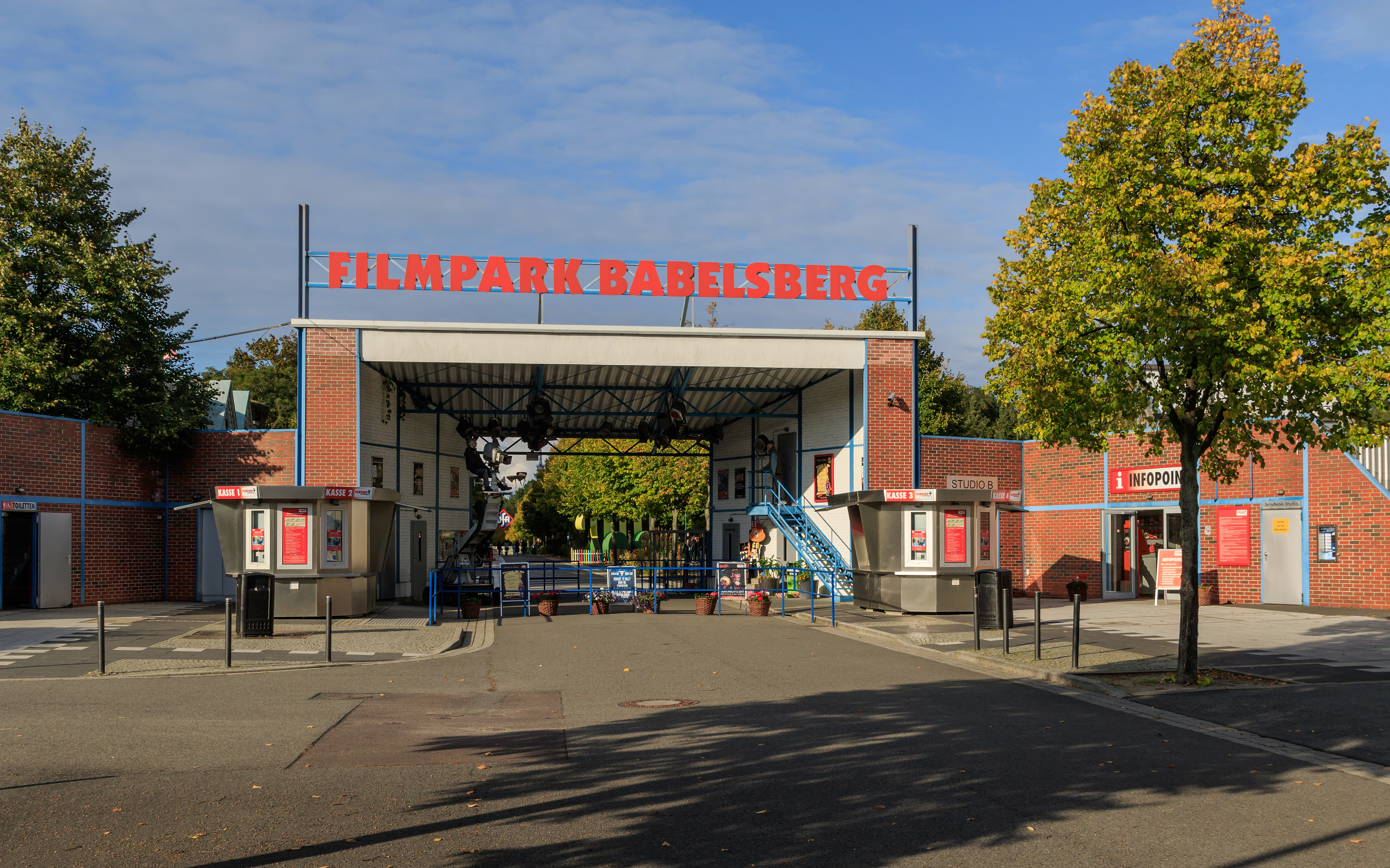 Babelsberg Movie Park in Potsdam (Germany)